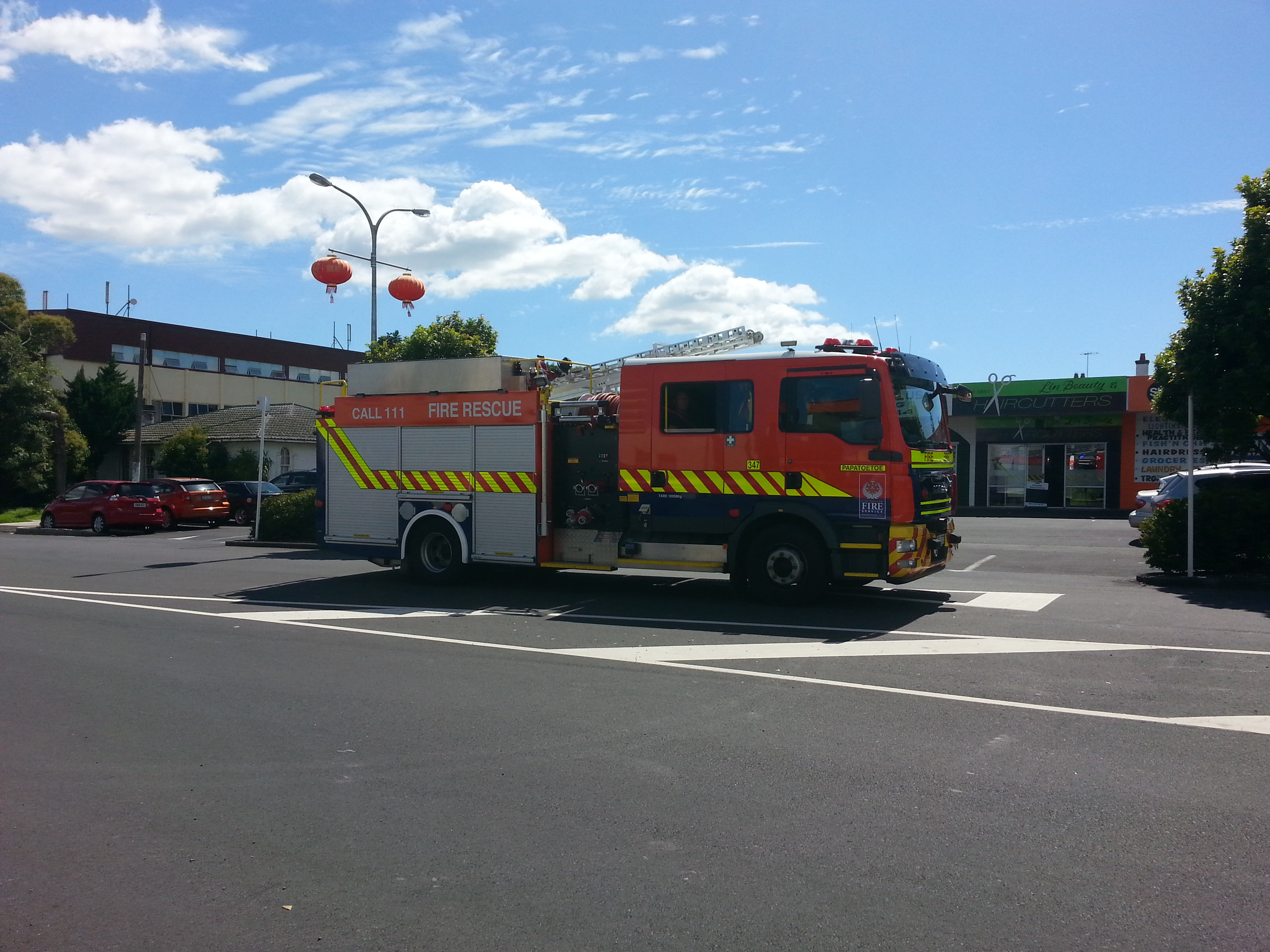 Papatoetoe 347 returning from an alarm activation in March 2016.